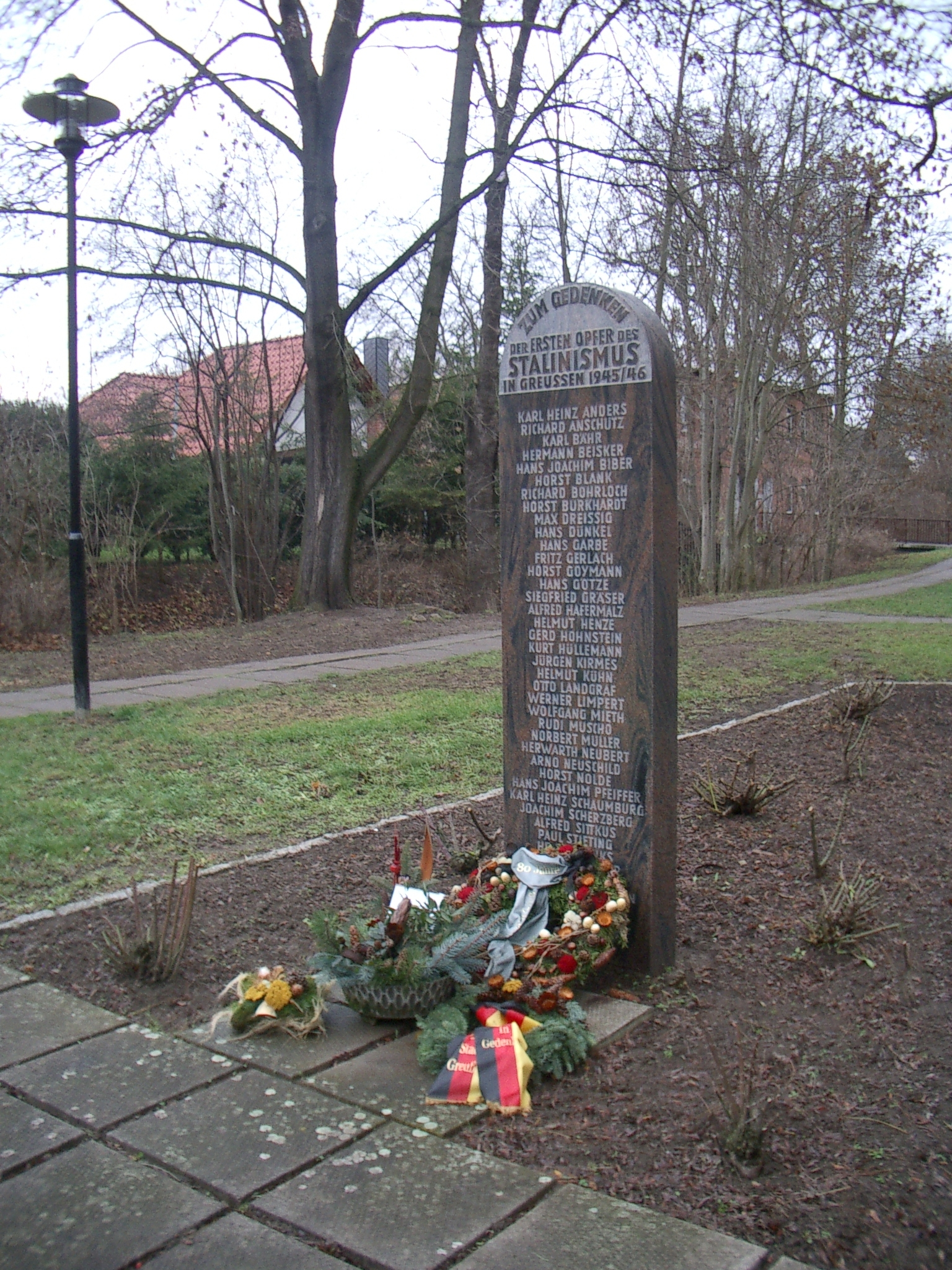 Victims of Stalinism in Greussen (Thuringia)